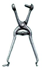 Hand tool for removing pits from fruits; uploader specifies use for olives